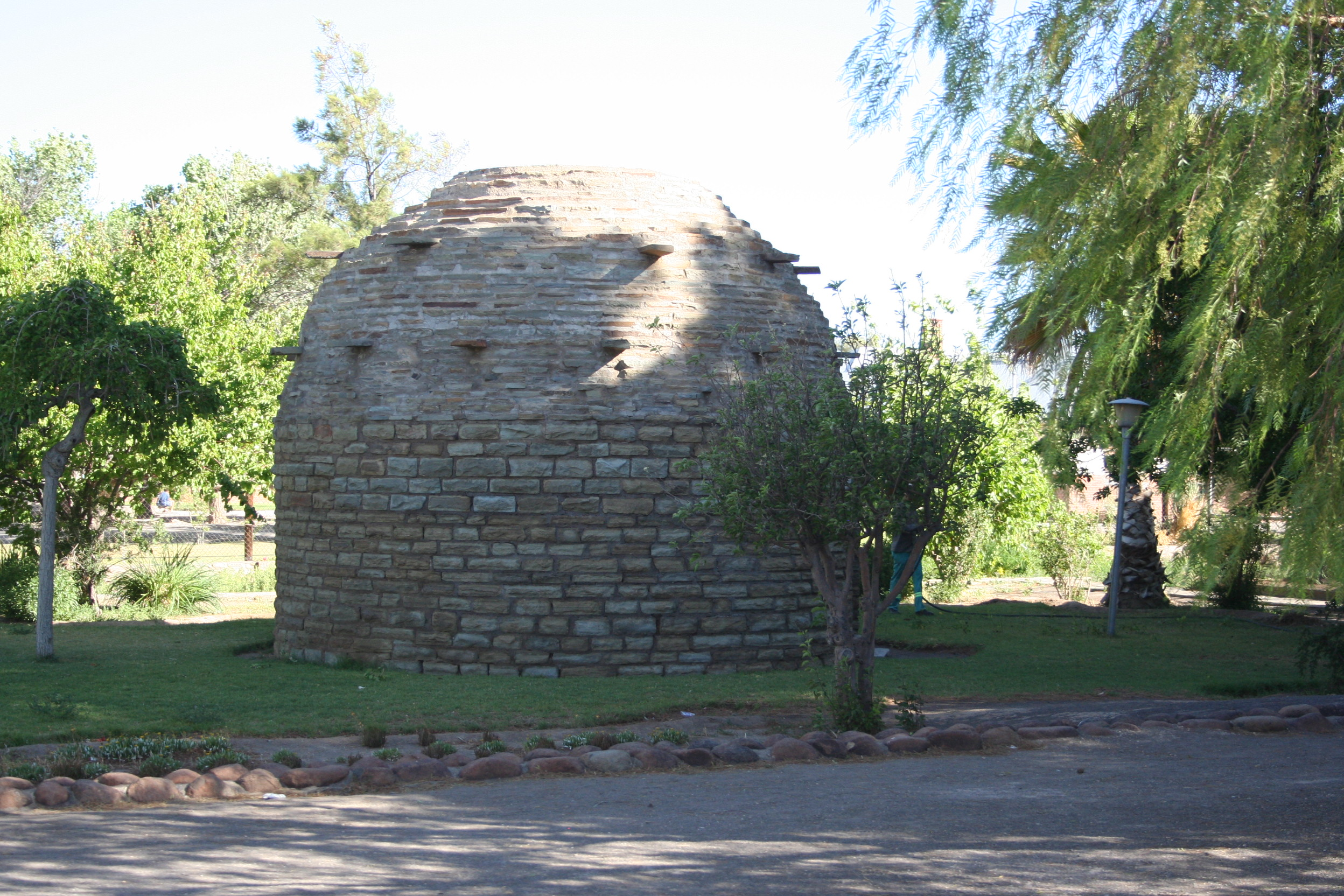 The Corbelled House in Fraserburg, Northern Cape This media shows a South African Protected Site with SAHRA file reference [1].